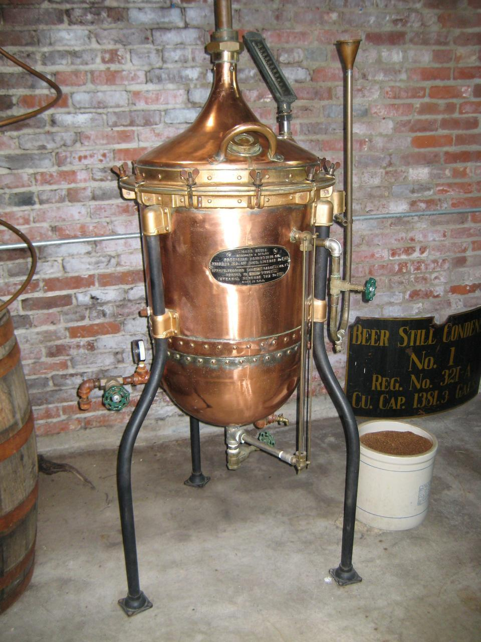 An old still, not much larger than a lot of moonshine stills, but more complex and once used for legal whiskey production. Seen at Buffalo Trace distillery.